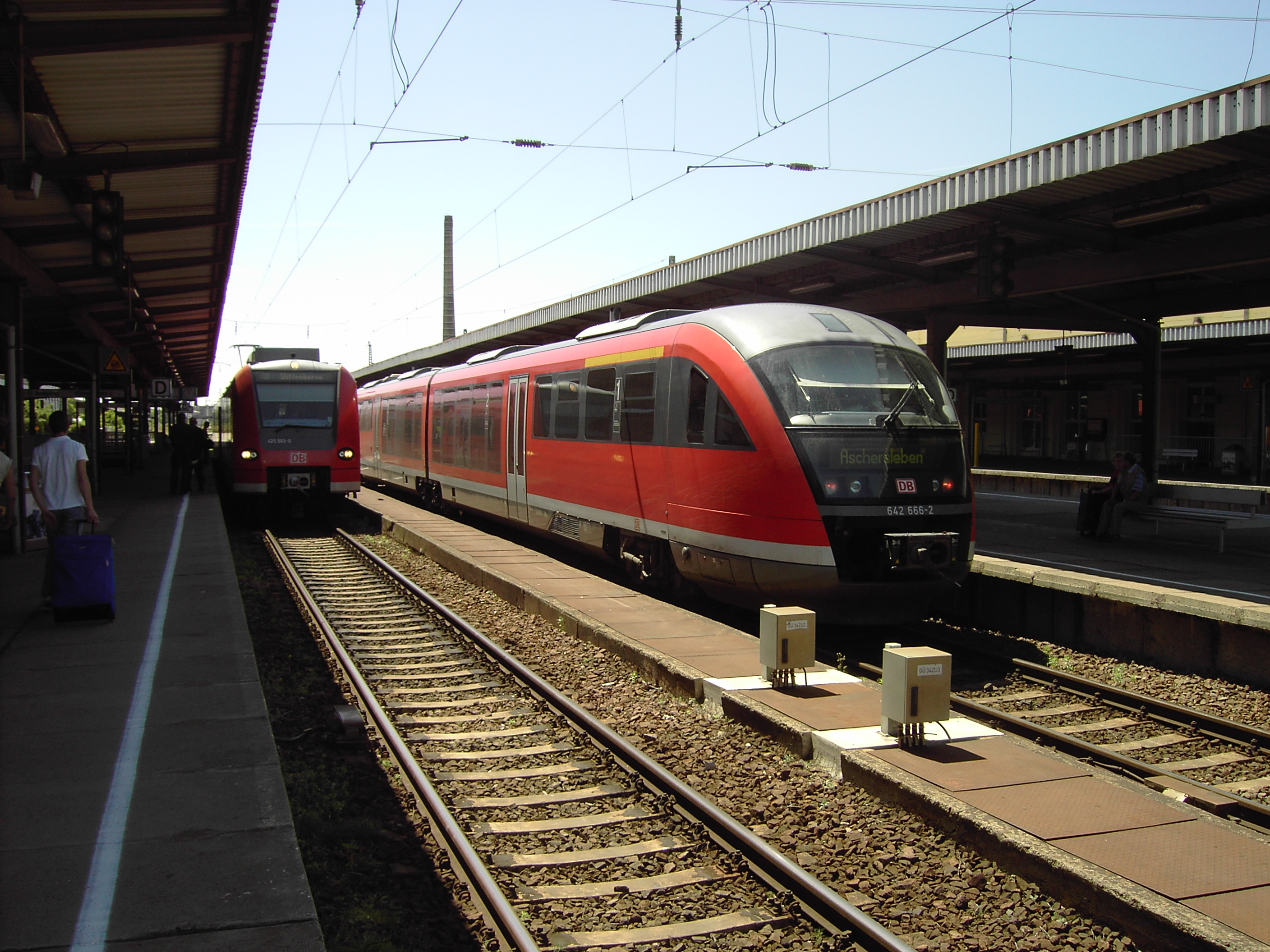 A DMU waits at Magdeburg main station for his depart to Aschersleben.